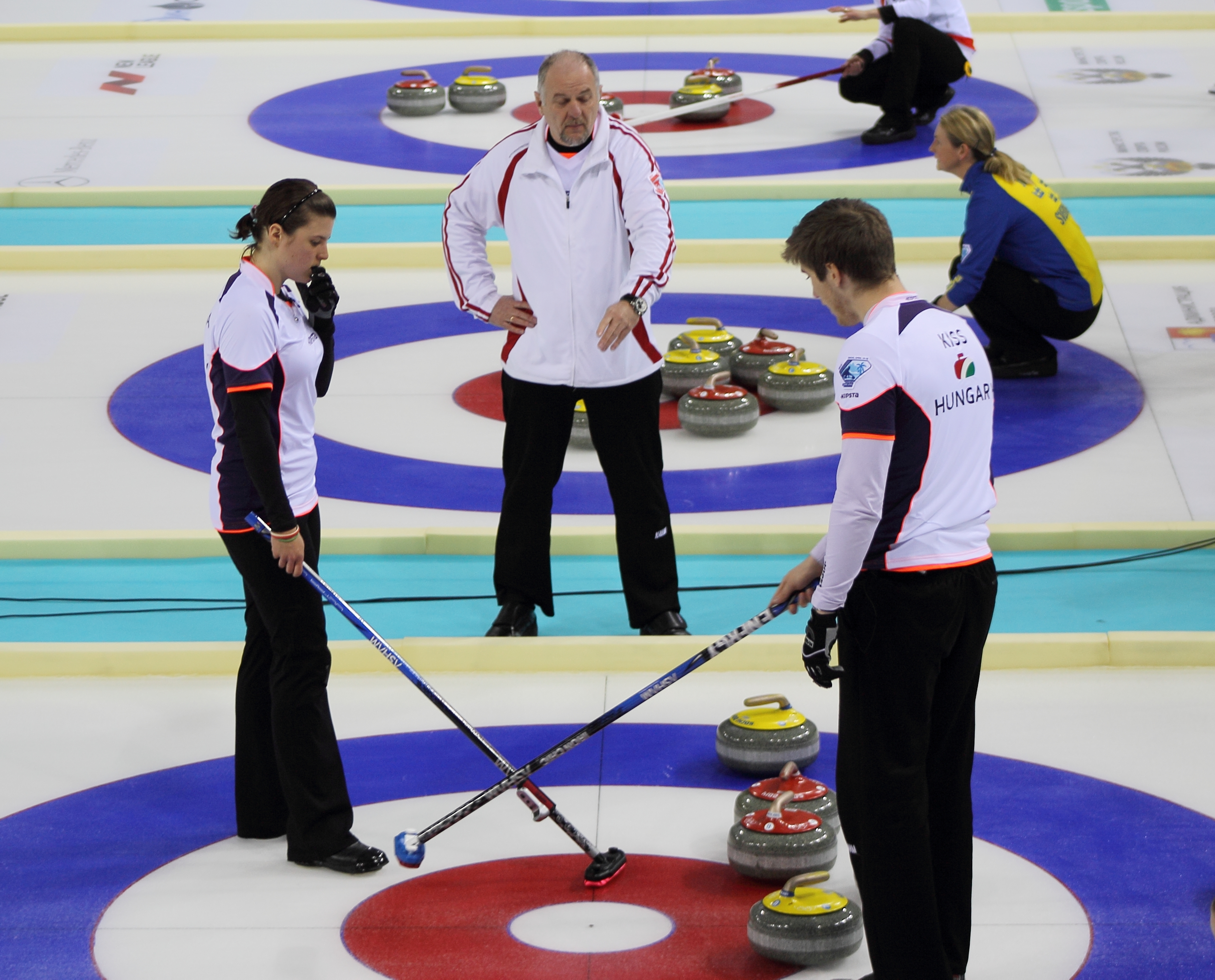 World champions the Hungarian curlers of Dorottya Palancsa and Zsolt Kiss with the trainer of Palancsa (in the center) at the World Mixed Doubles Curling Championship 2015 in Sochi.